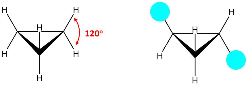 Conformação ciclopropano